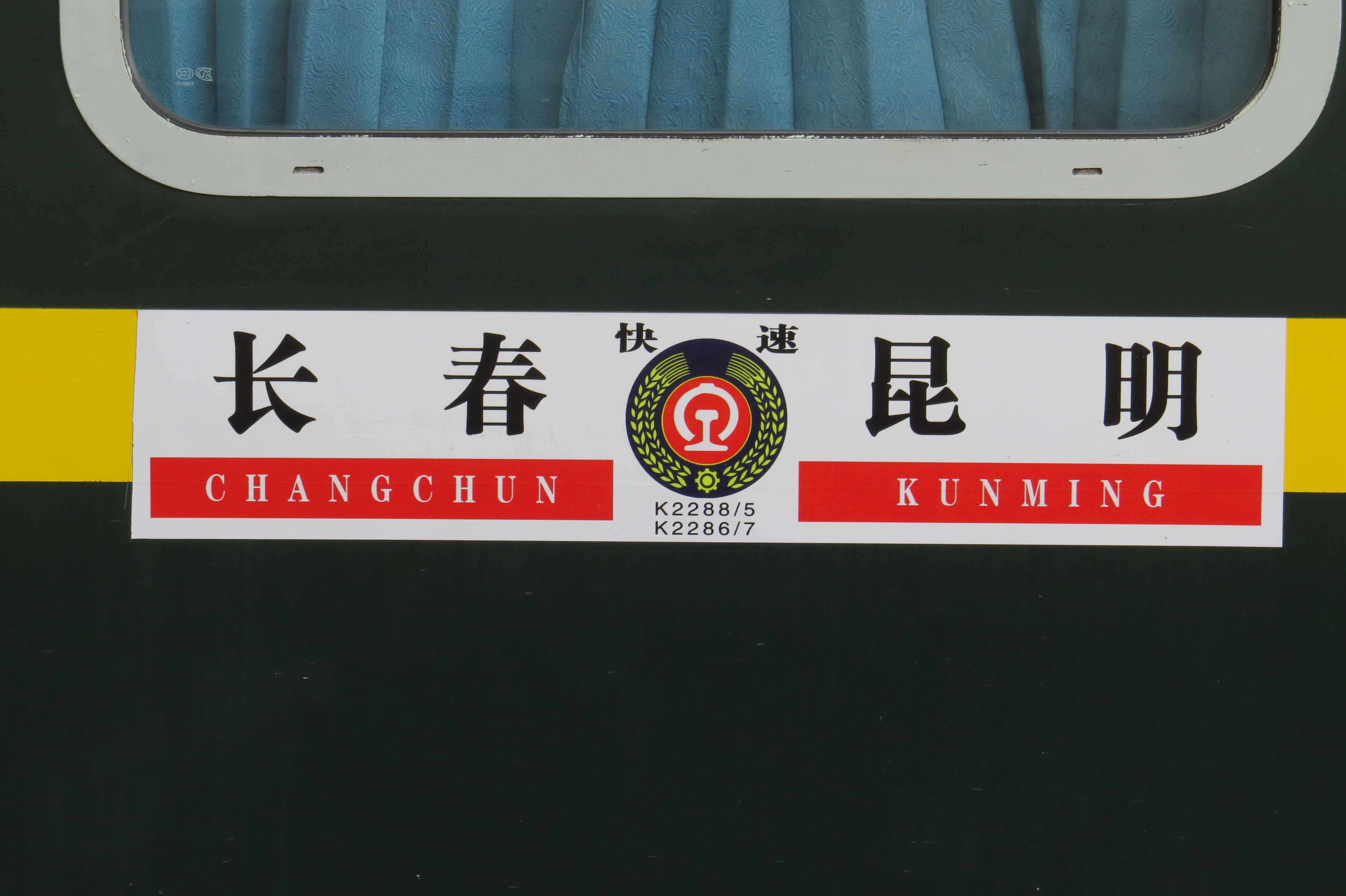 This is the longest train by duration in China - It takes this train 68 hours and 10 minutes from Changchun to Kunming. Taken at Tianjin Railway Station when our train T58 was ready to board - T58 on the 2nd platform, K2288 on the 1st platform, and K296 on the 3rd platform.